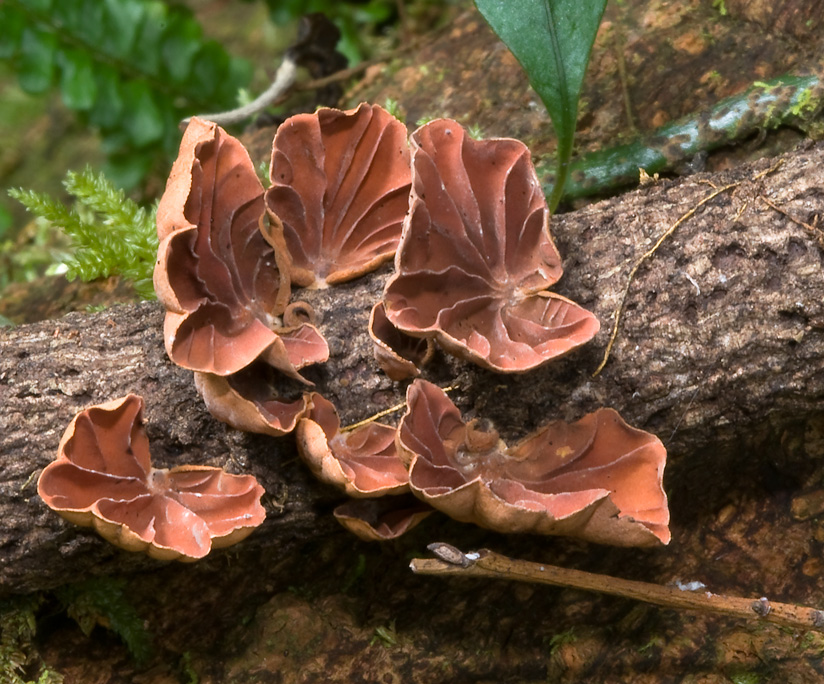 The fungus Anthracophyllum archeri (Berk.) Pegler. Specimen photographed in Wilson River Primitive Reserve, New South Wales, Australia.